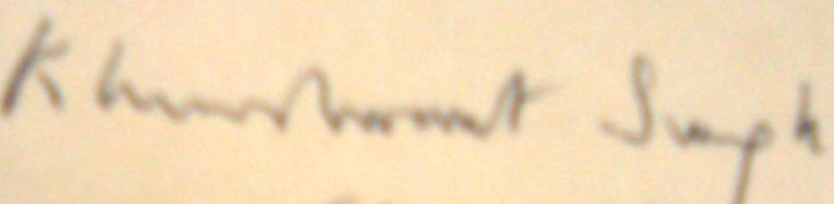 Khushwant Singh's Autograph in English